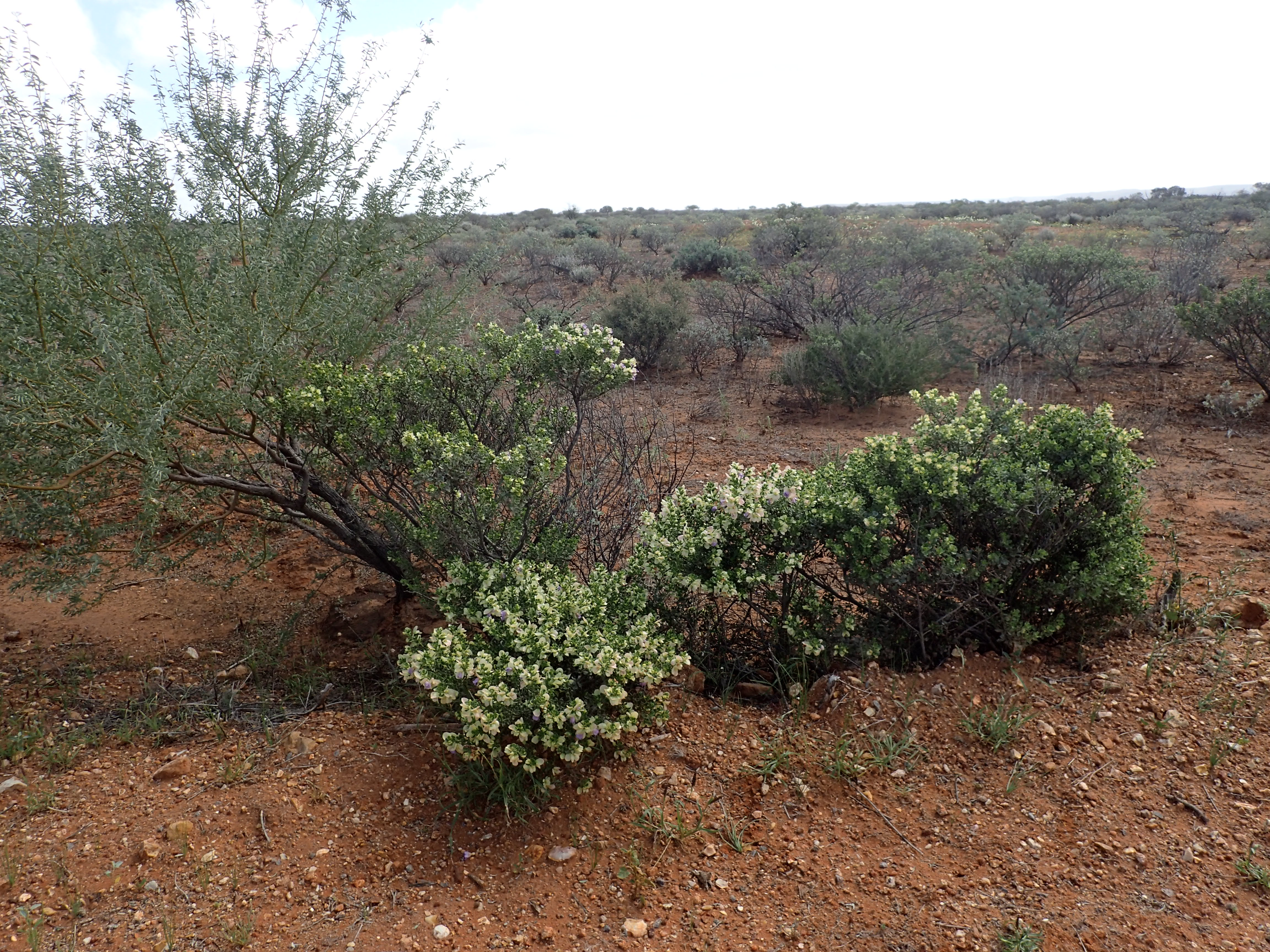 Eremophila cuneifolia (cream-coloured sepals) growing near the Kennedy Range